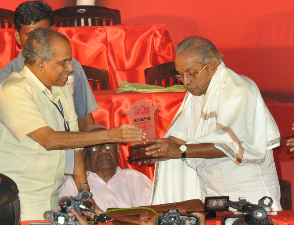 This media file is uploaded with Malayalam loves Wikimedia event - 2. ONV CPI STATE MEET 2012